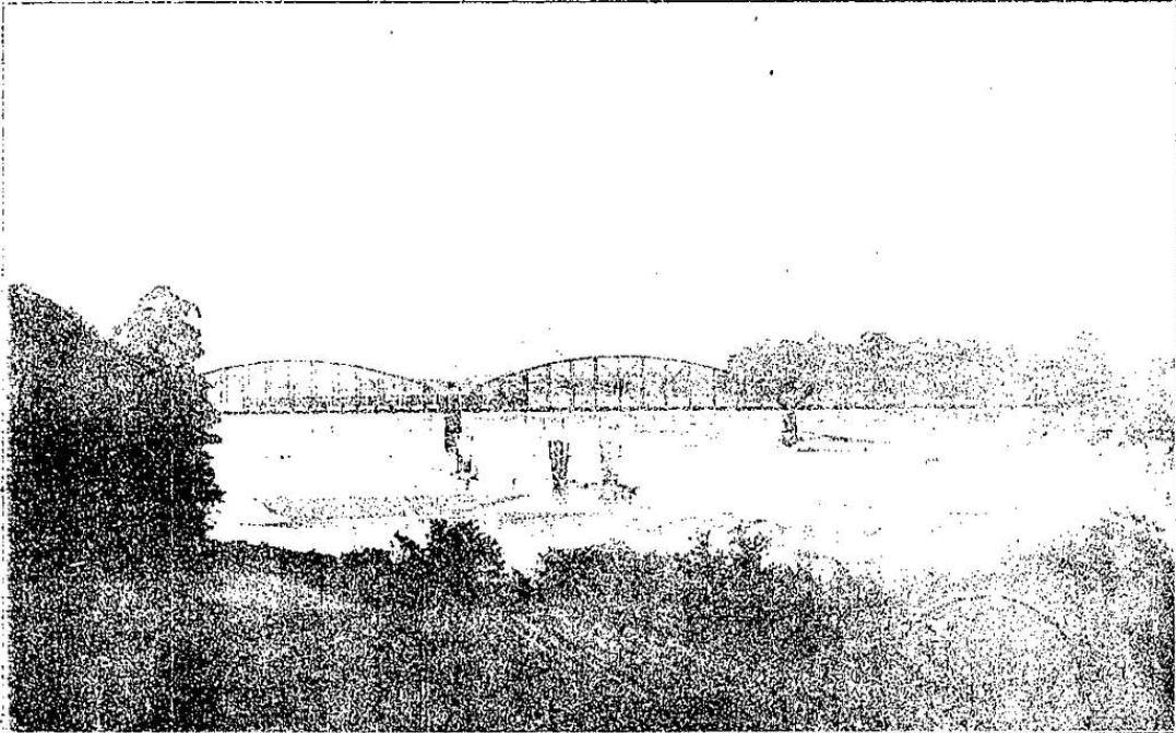 Kinokawa railway bridge of Kiwa railway (lator Wakayama line of Japanese Government Railway)